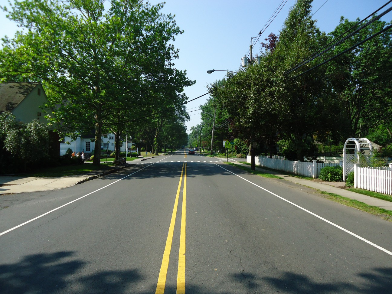 Plainfield Avenue near the library in Berkeley Heights, New Jersey.